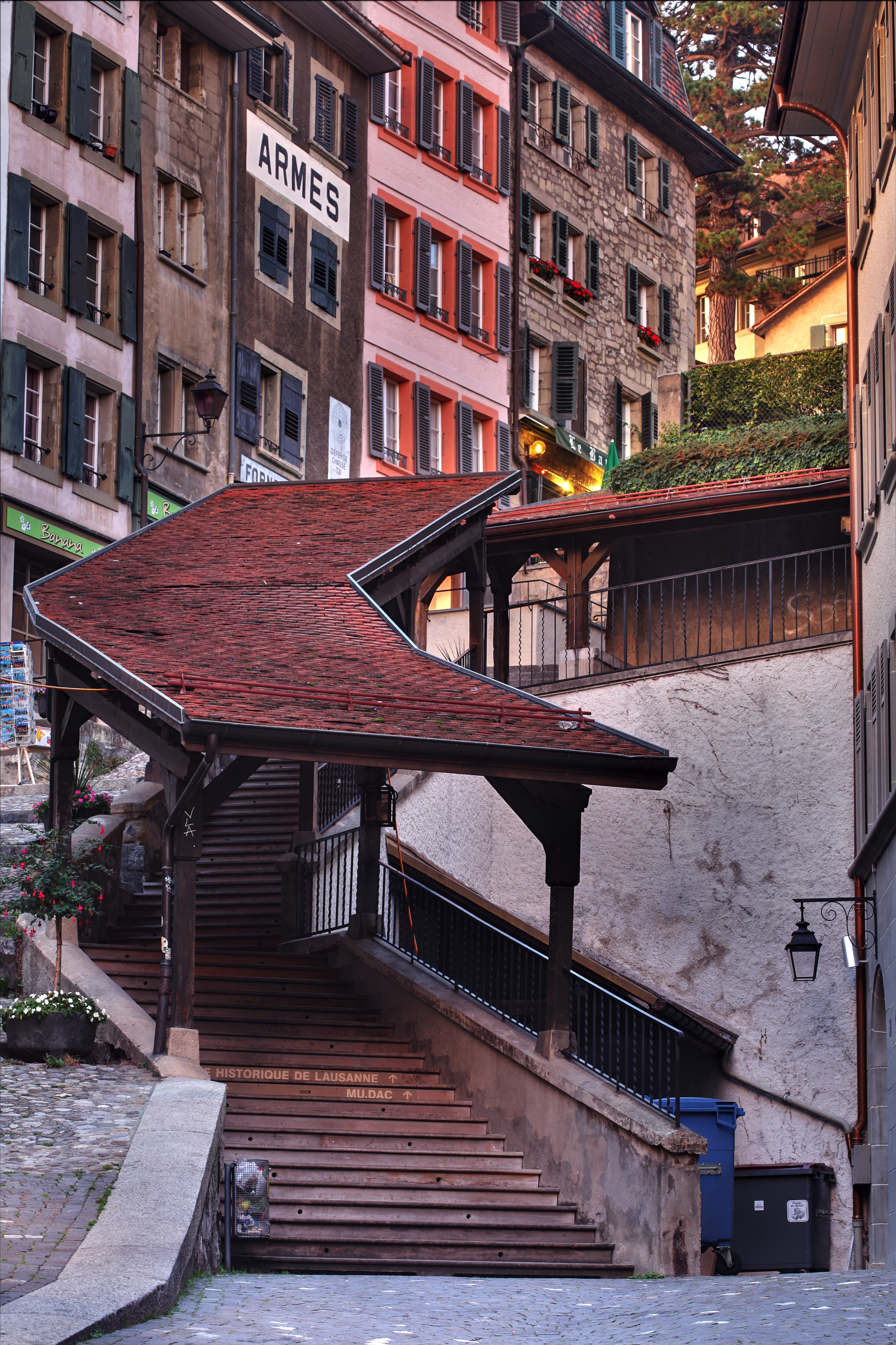 Old stairs to the cathedral